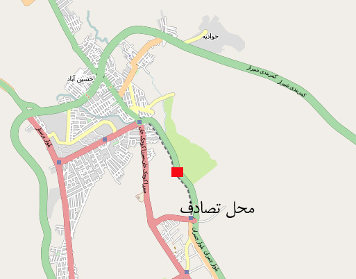 Accident-Place-of-Mr,-Melmasi in Shiraz.